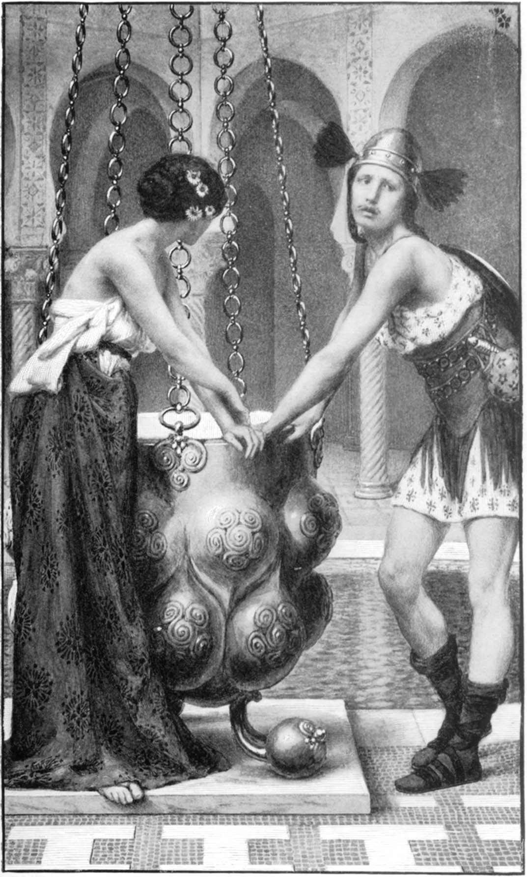 "The hands of Pryderi and Rhiannon were held fast by the enchanted bowl, and their feet by the enchanted slab; and their joyousness forsook them, and they could not utter a word."